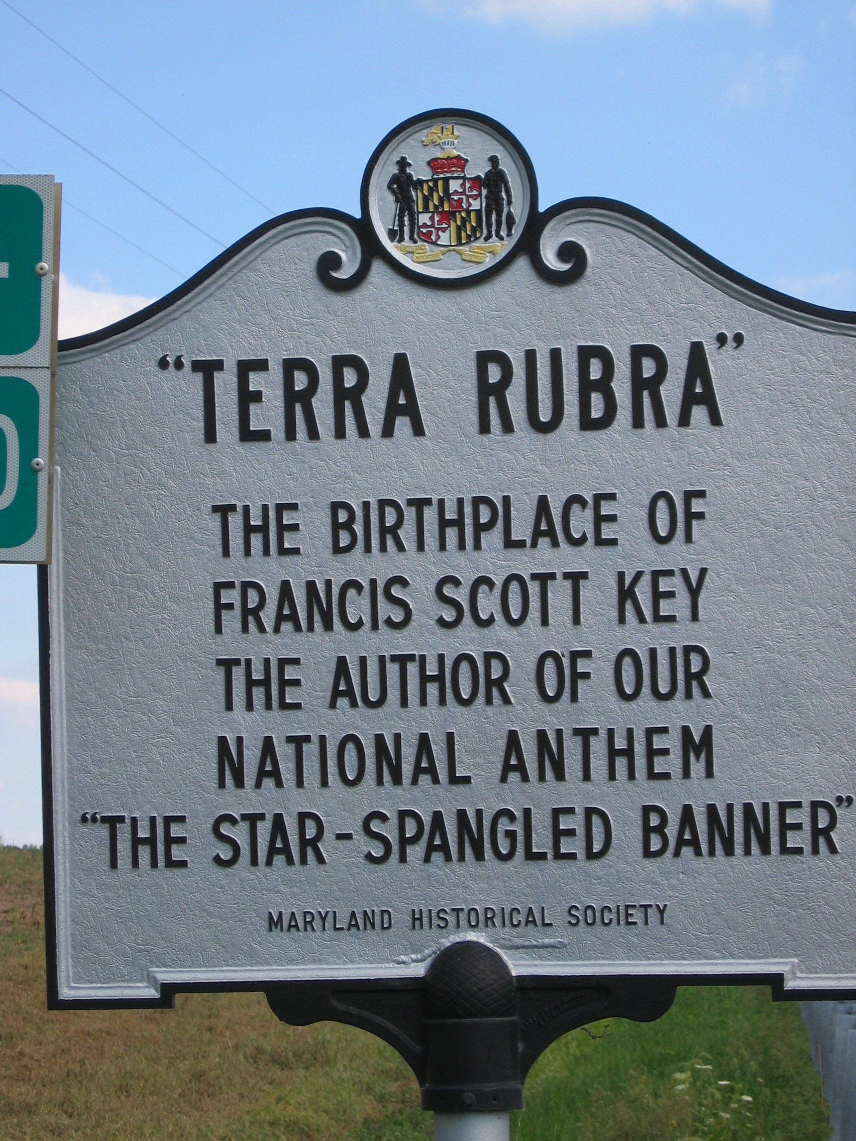 Maryland Historical Society plaque at Francis Scott Key birthplace